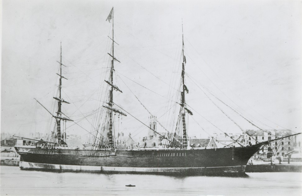 The wooden ship 'Schomberg', 2284 tons, at Aberdeen in Sept 1855, a wooden ship, 2284 tons, 262.0 x 45.0 x 29.2. Built 1855 by A. Hall and Co. Aberdeen. Owners James Baines and Co., registered Liverpool. She left Liverpool on her maiden voyage in Oct 1855 flying a signal 'To Melbourne in 60 days' but she was a very heavy ship carrying railway iron etc., and was proving rather slow. She was wrecked 27 Dec 1855, on her maiden voyage on the Victorian coast at a spot near Curdie's Inlet, now called 'Schomberg Reef'. Her captain James 'Bully' Forbes was charged with wrecking her, and other offences in Melbourne as a result of the accident. He was cleared but it was the end of his career as a commander of fast sailing clippers. The Christchurch NZ paper Sun, 15 March 1975 published an article stating that the remains of a large portion of this ship had been discovered washed up on the West Coast of New Zealand. It is claimed that the major portion of the upperworks (the hull above the load waterline) had broken free from the bottom of the ship and as a partially submerged wreck carried across the Tasman Sea.